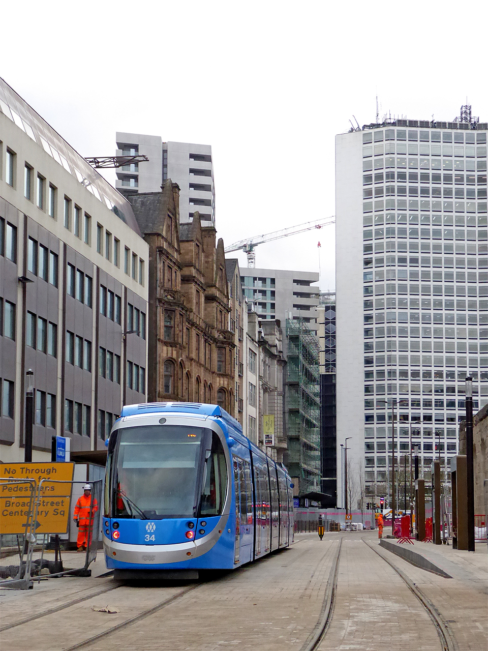 Tram on Paradise Street in Birmingham